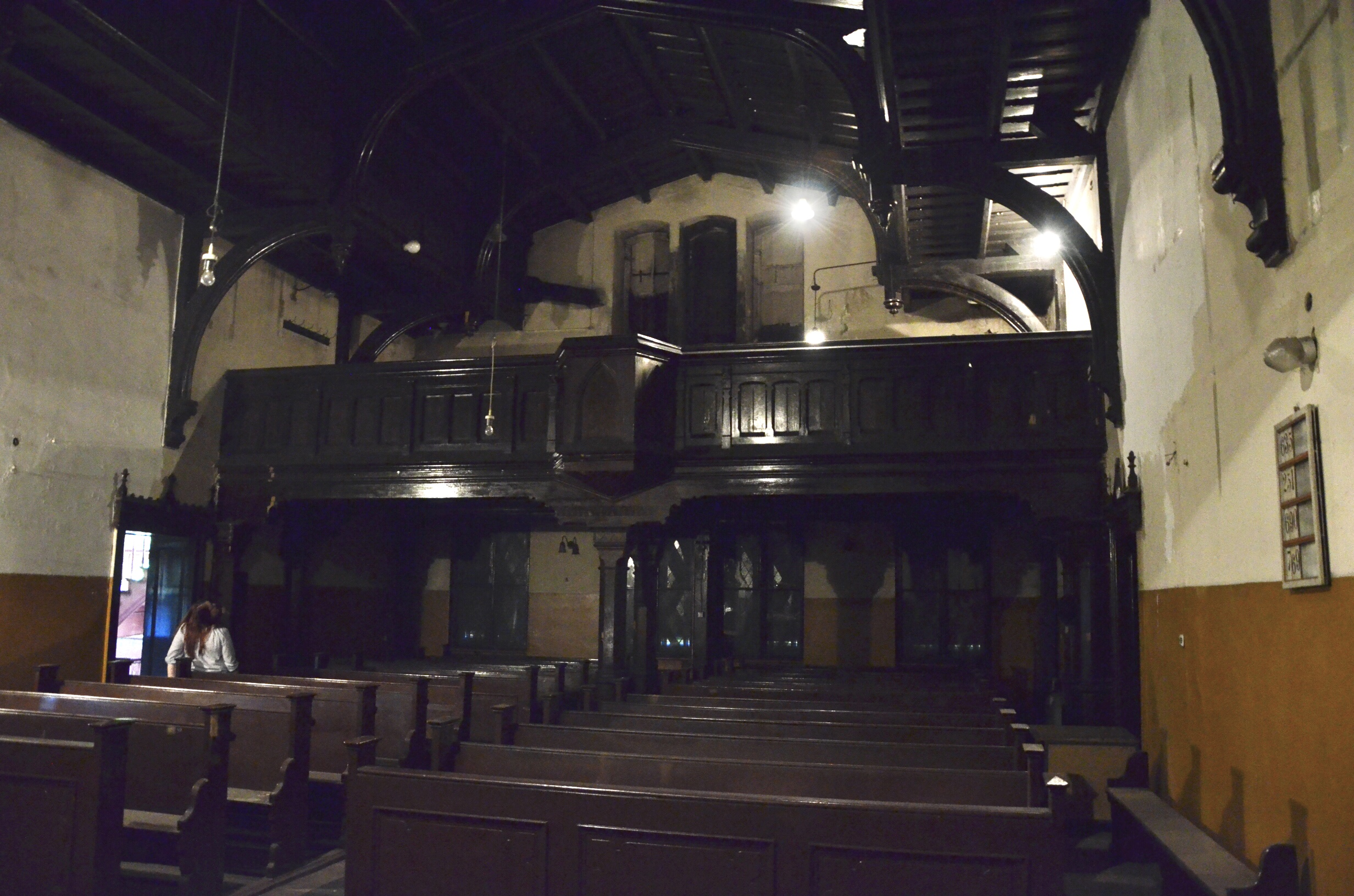 interior of the evengelical chapel on borsig settlement in Zabrze, Poland